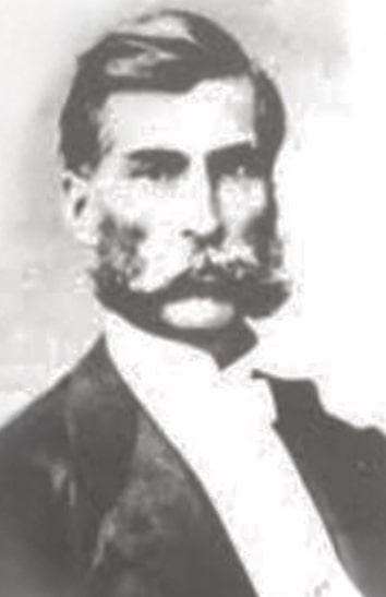 Photographic portrait of Felipe Varela (1821-1870)